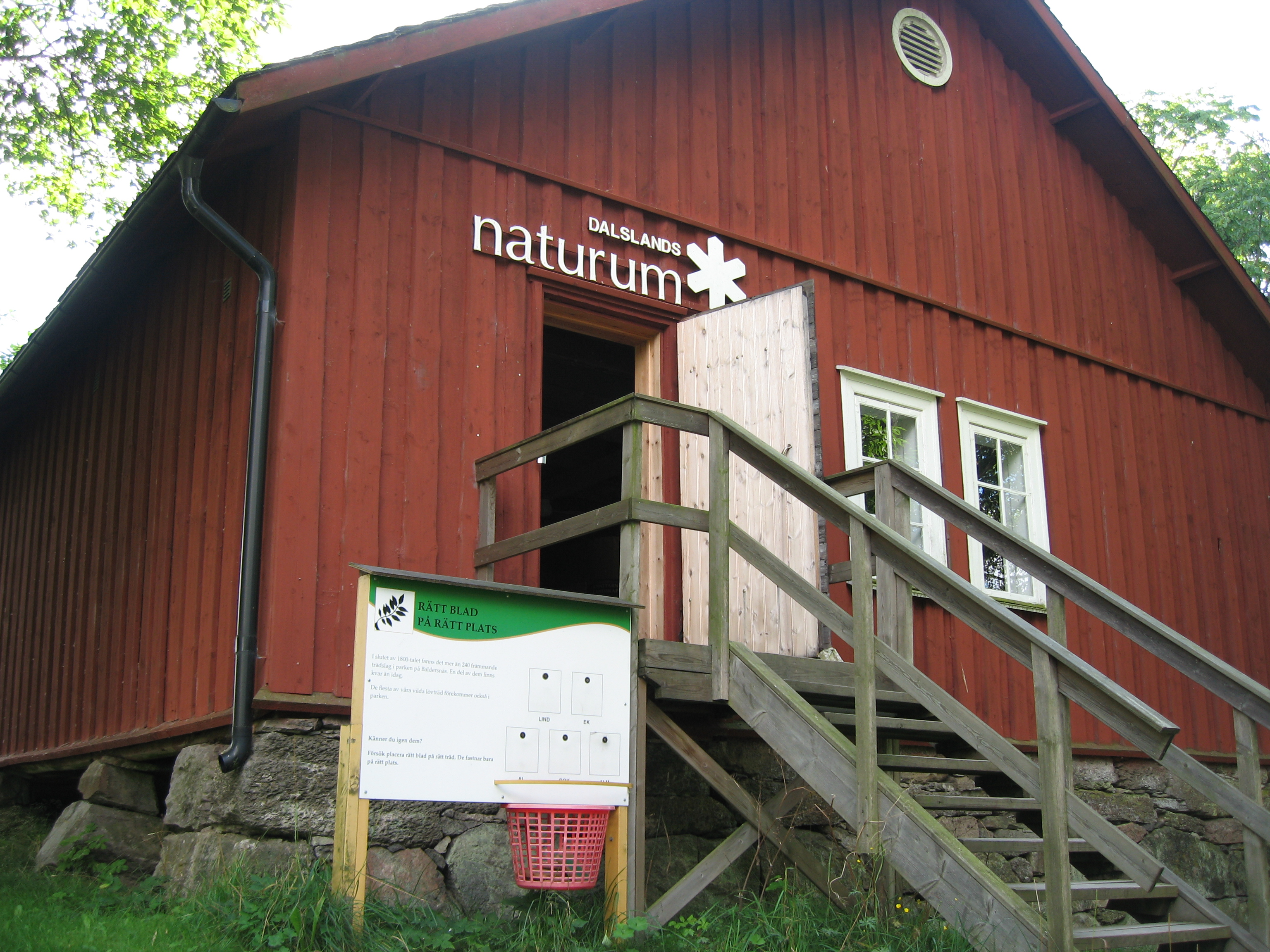 Dalslands Naturum at Baldersnäs is an information center for nature, geology and wildlife in the region of Dalsland.